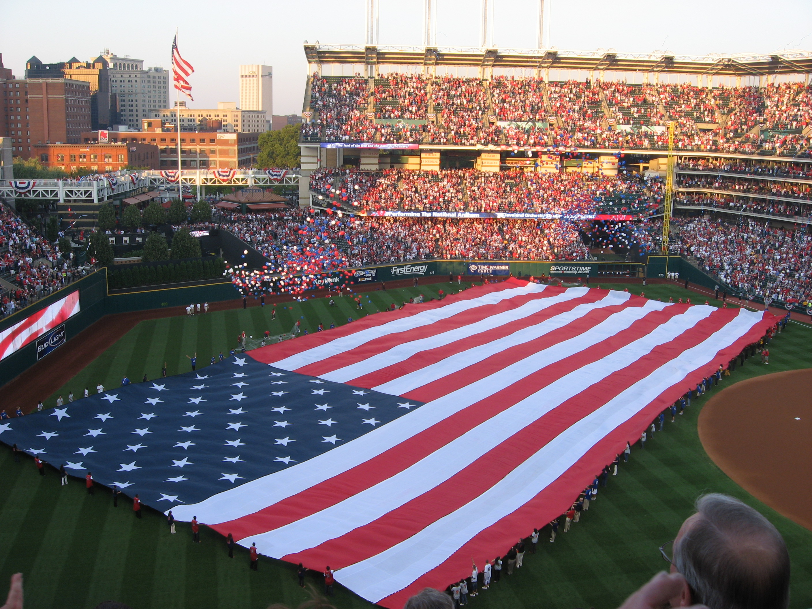 The American flag being unfurled at then Jacobs Field, now Progressive field.